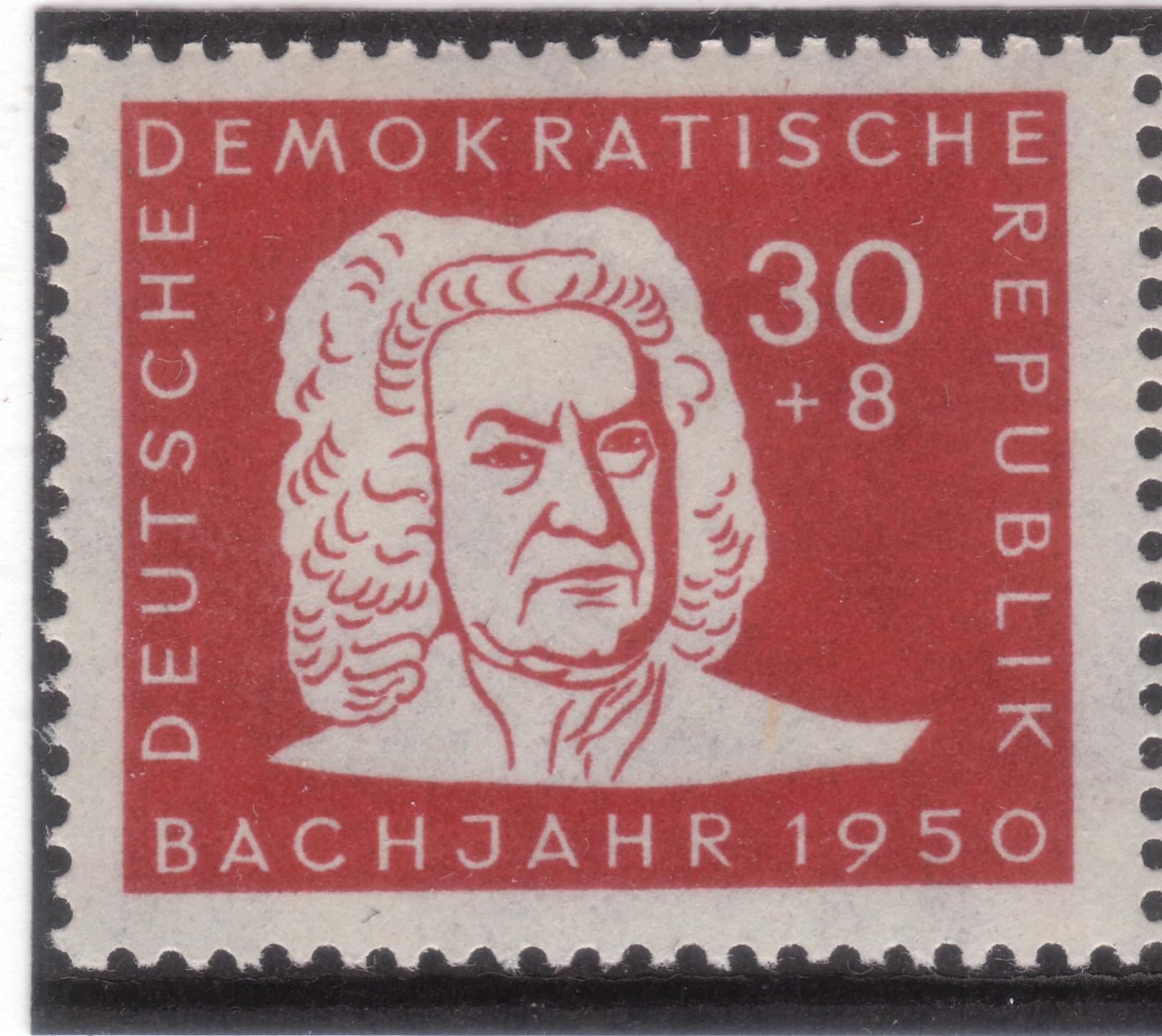 Year of J.S. Bach 1950 (200th anniversary of the death of Johann Sebastian Bach) Graphic designer: Gerhard Martens Ausgabepreis: 30+8 Pf First Day of Issue / Erstausgabetag: 14. Juni 1950 Michel-Katalog-Nr: 258